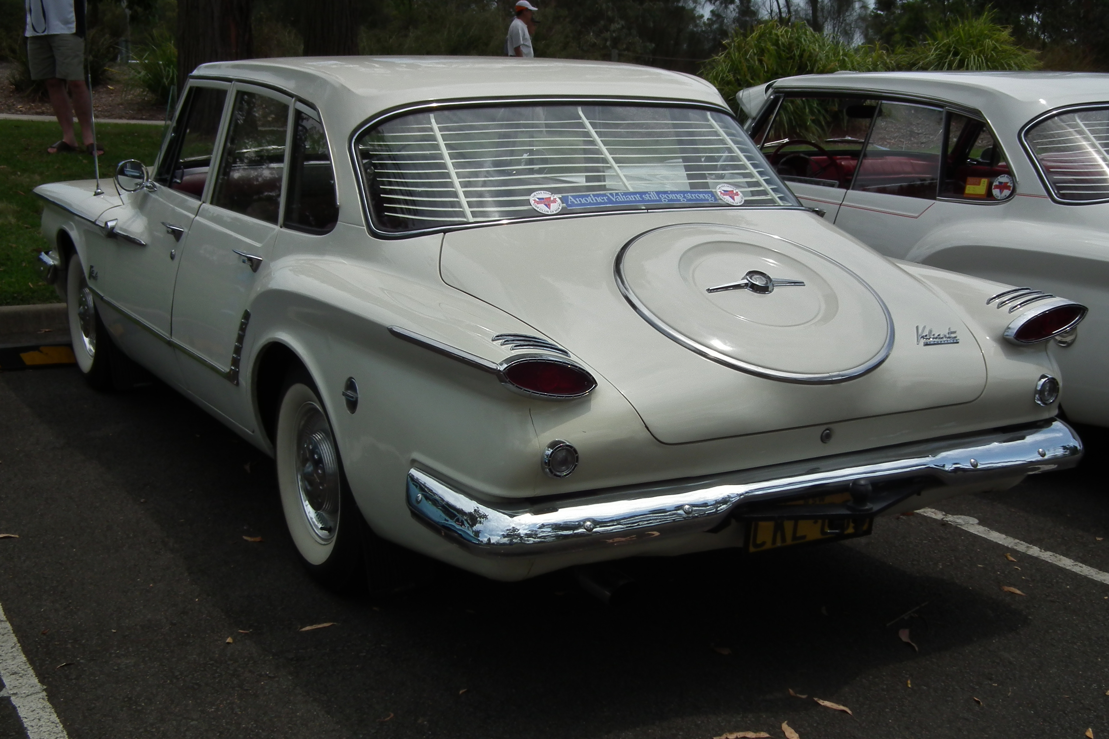 1962 Chrysler RV1 (R Series) Valiant sedan. Taken at the R & S Series Valiant Car Club of NSW 2011 Christmas Party, at Warragamba Dam, NSW.